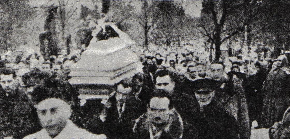 Funeral of Bohdan Piasecki